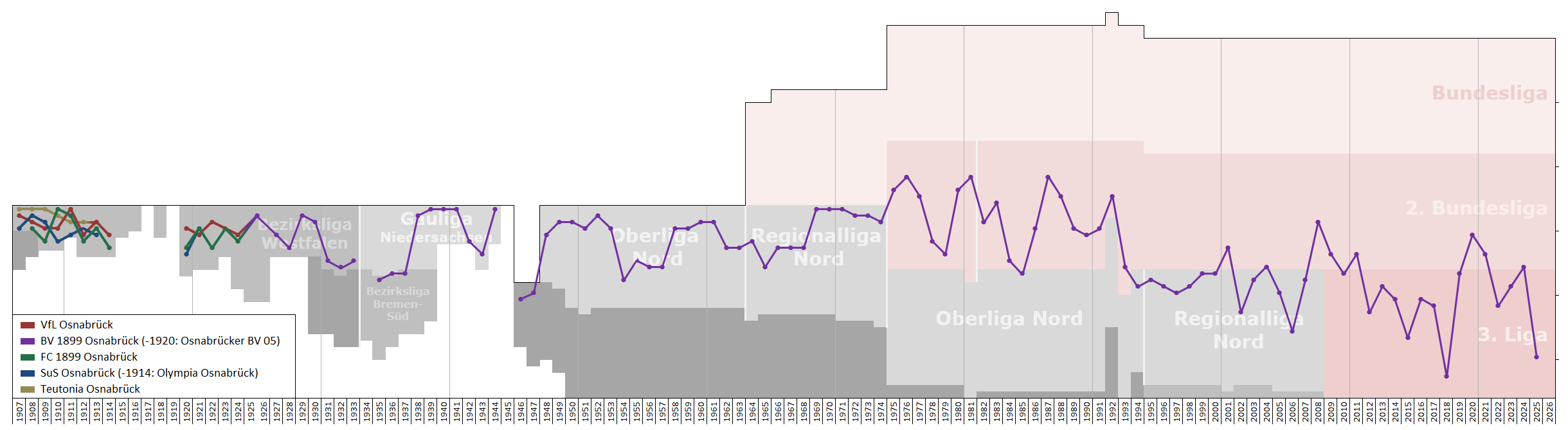 Chart of end-season table positions of VfL Osnabruck in the football league system of Germany. Data source: RSSSF, wikipedia, f-archiv.de, fussball.de